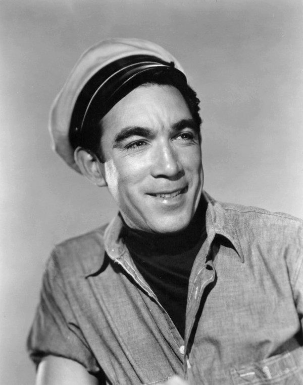 Publicity photo of Anthony Quinn, with signature. See below for more information.